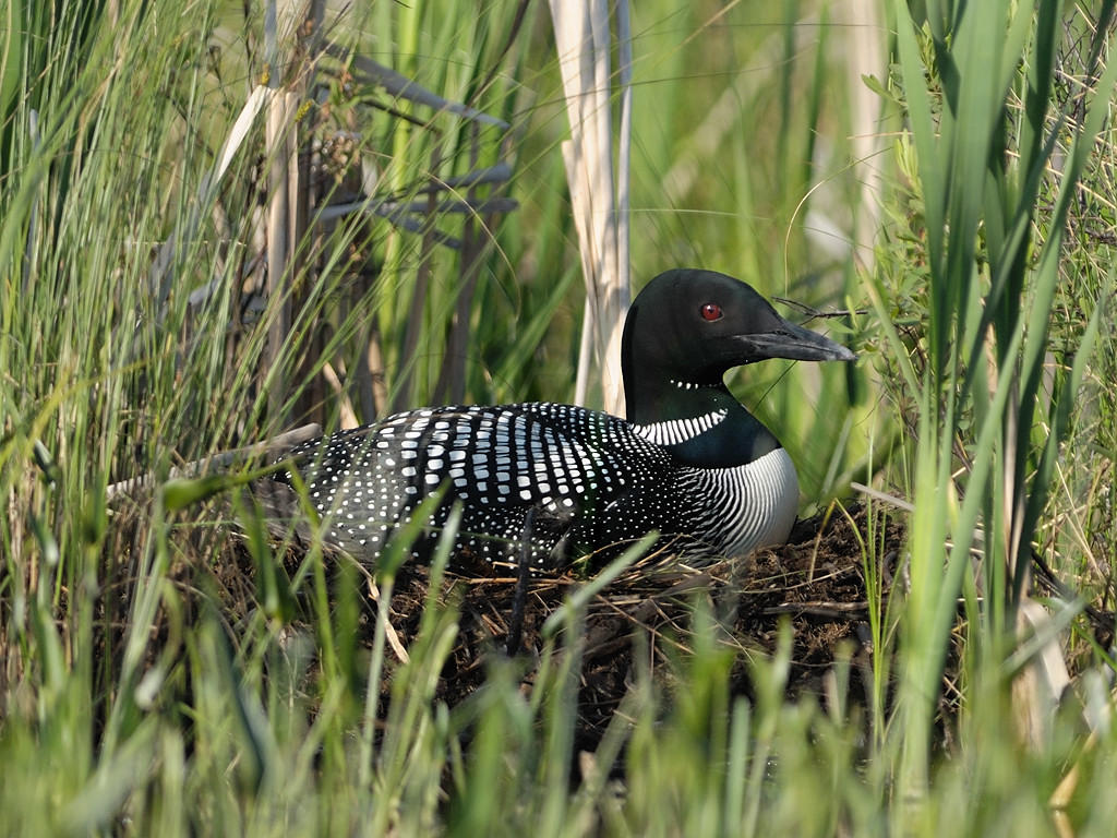 A Great Northern Loon (also known as the Great Northern Diver and the Common Loon) on a nest in Canada.